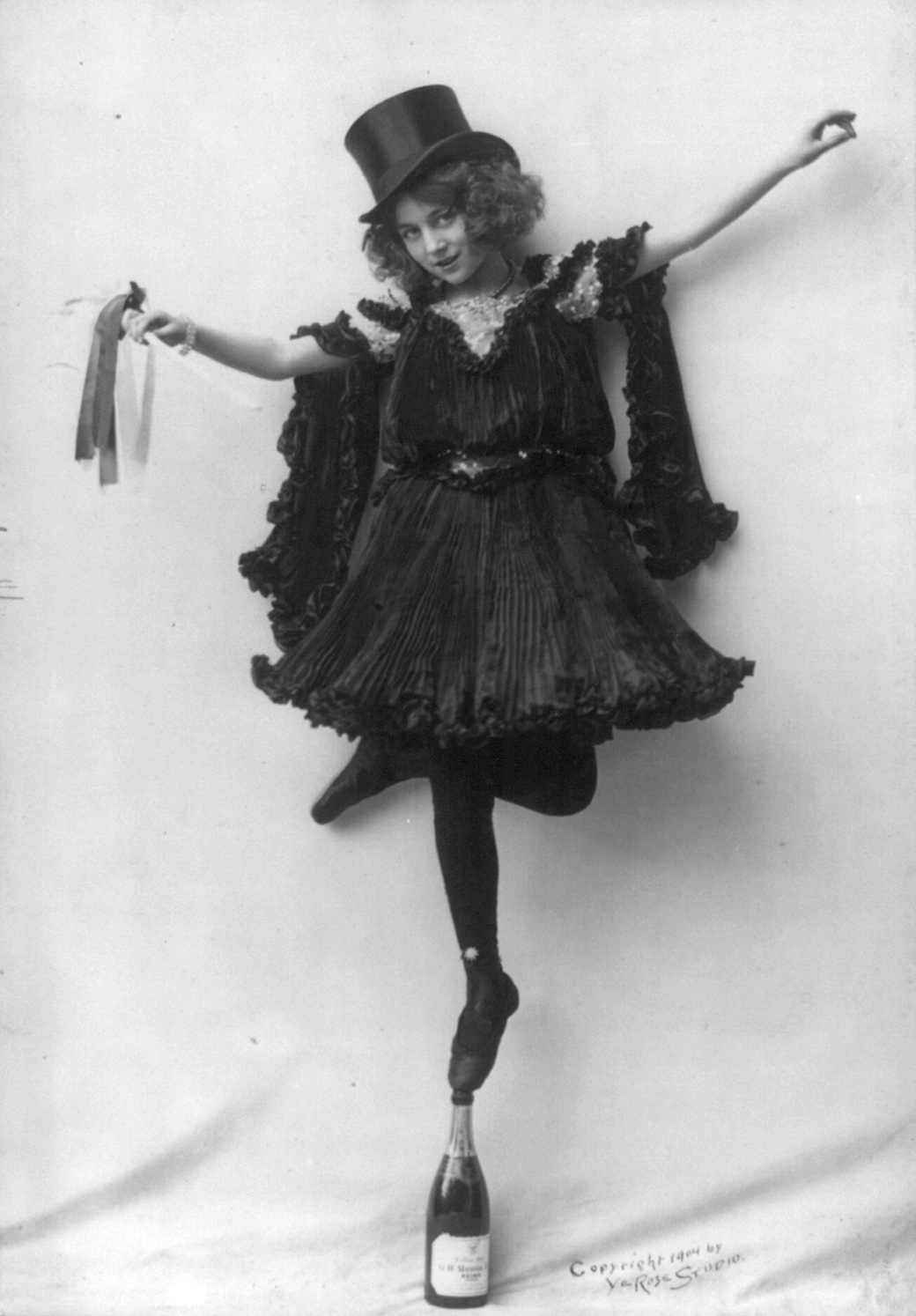 Model posed in ornate costumes: in black pressed pleats, with top hat; standing tip-toe on champagne bottle.